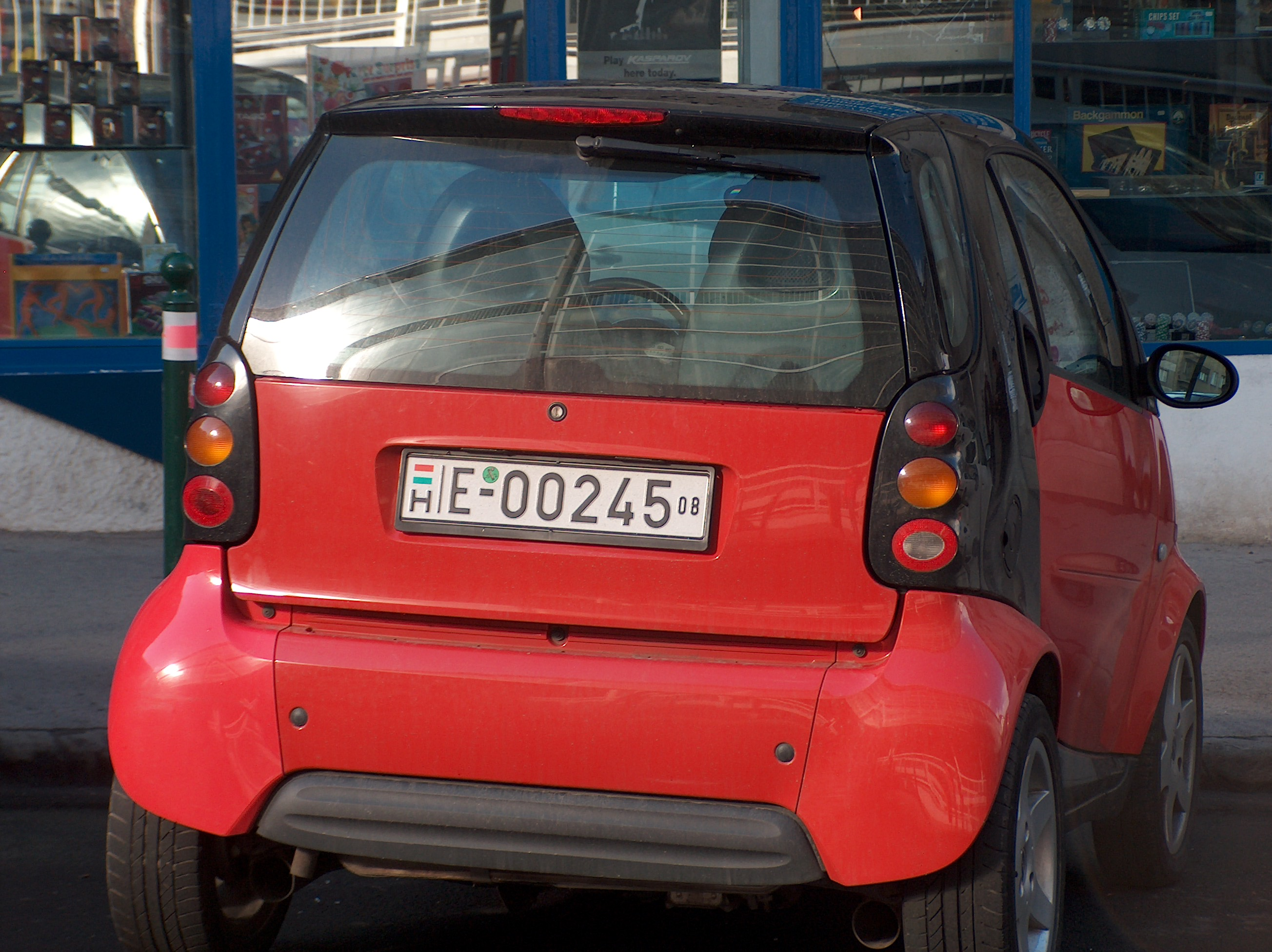 Smart Fortwo Coupé with temporary license plate from Hungary (Budapest 2008)